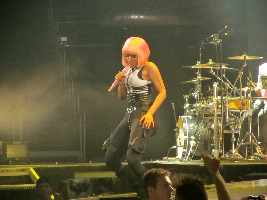 Nicki Minaj live on Femme Fatale Tour in 2011.